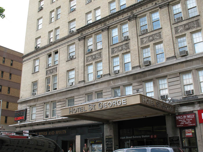 Hotel St.George, Brooklyn, NY as seen July 7, 2007. See also File:Hotel St George Henry jeh.jpg.